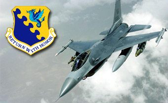 F-16 of the 31st Fighter Wing, Aviano AB, Italy.